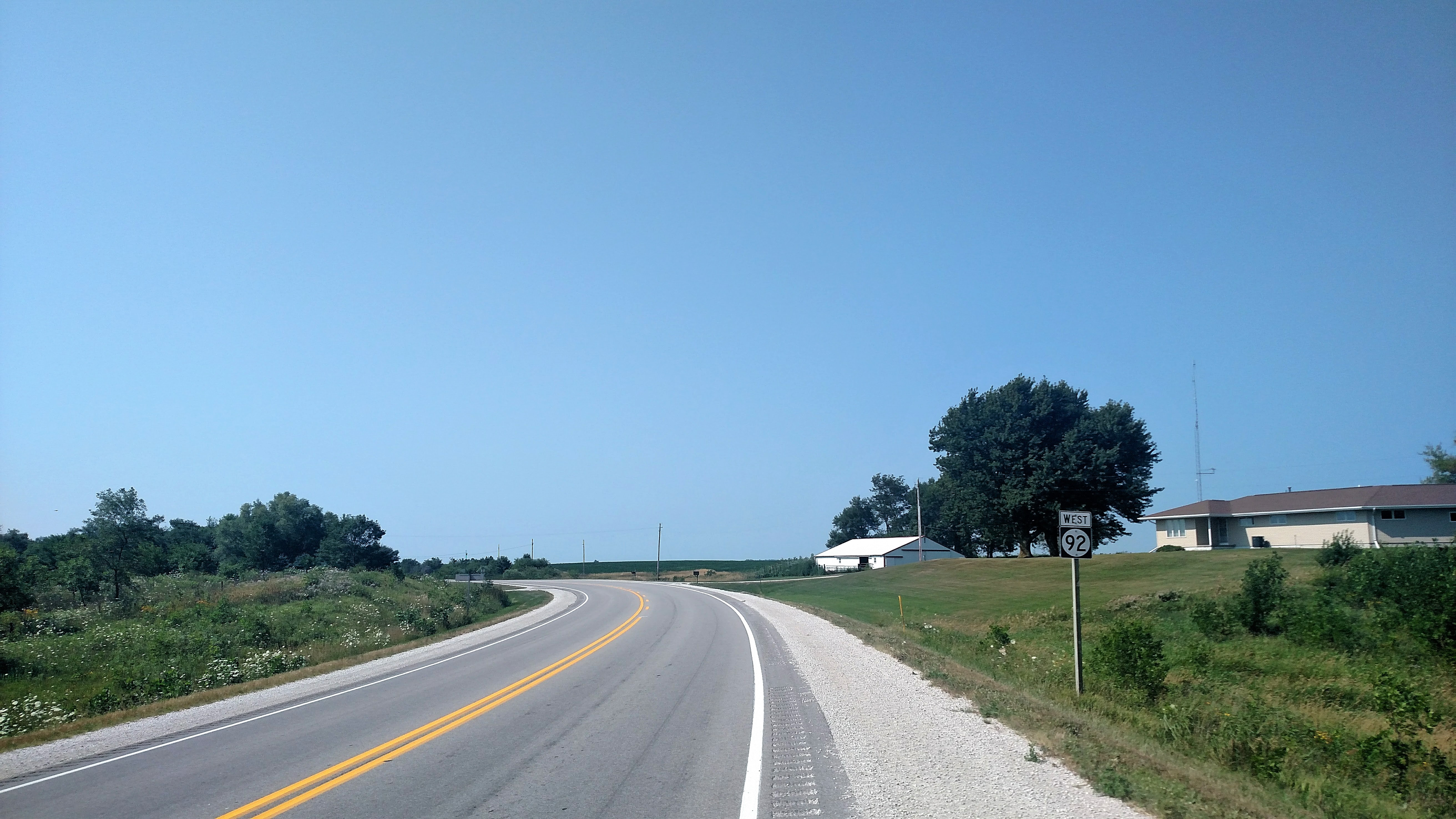 First westbound reassurance marker west of the CR P28/Stuart Road intersection east of Greenfield